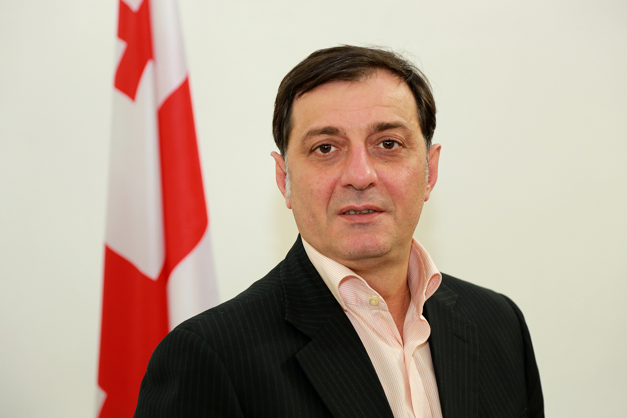 Vato Lezhava, Chancellor of the Free University